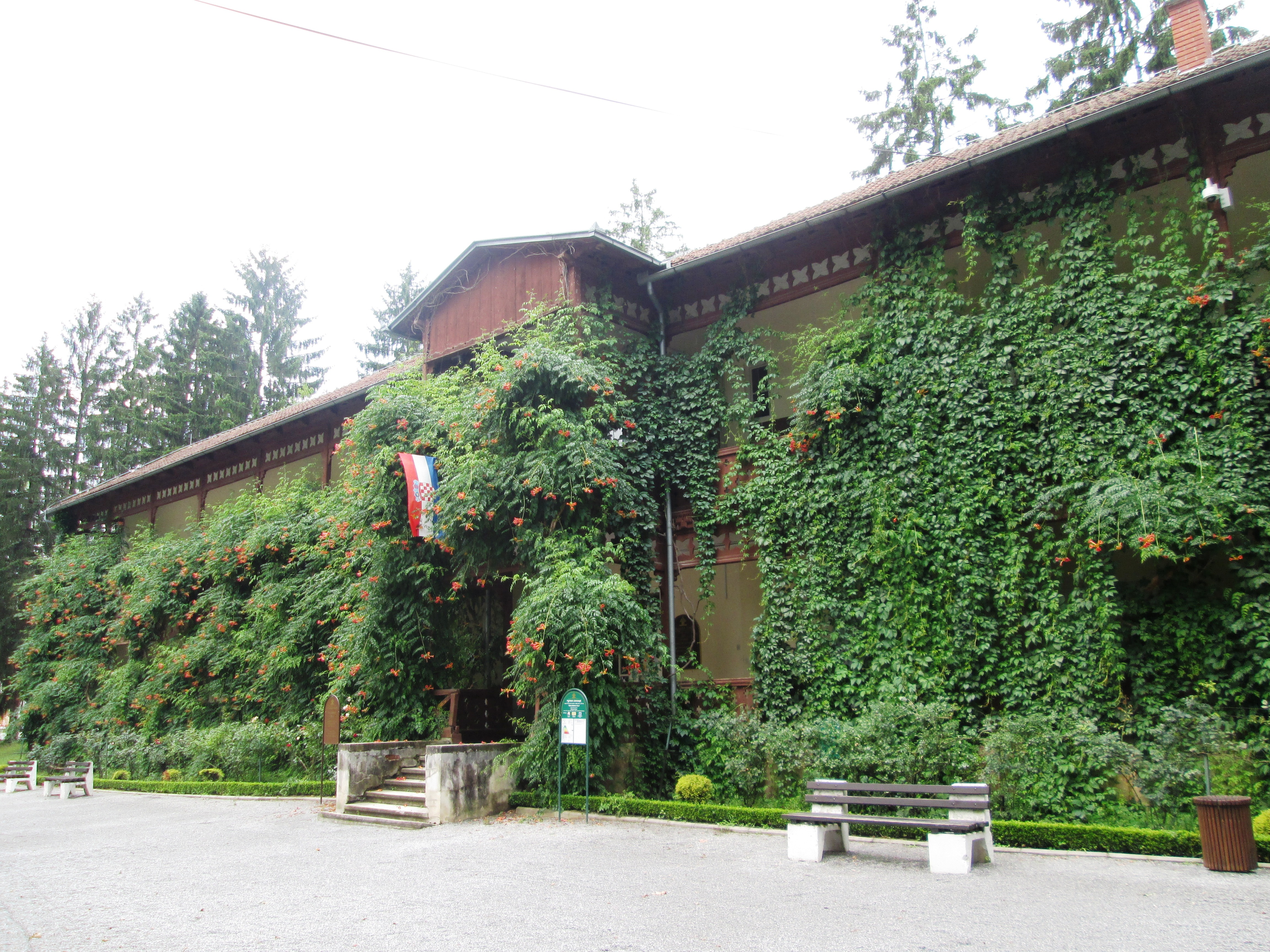 Swiss House, Daruvar Spa in Croatia